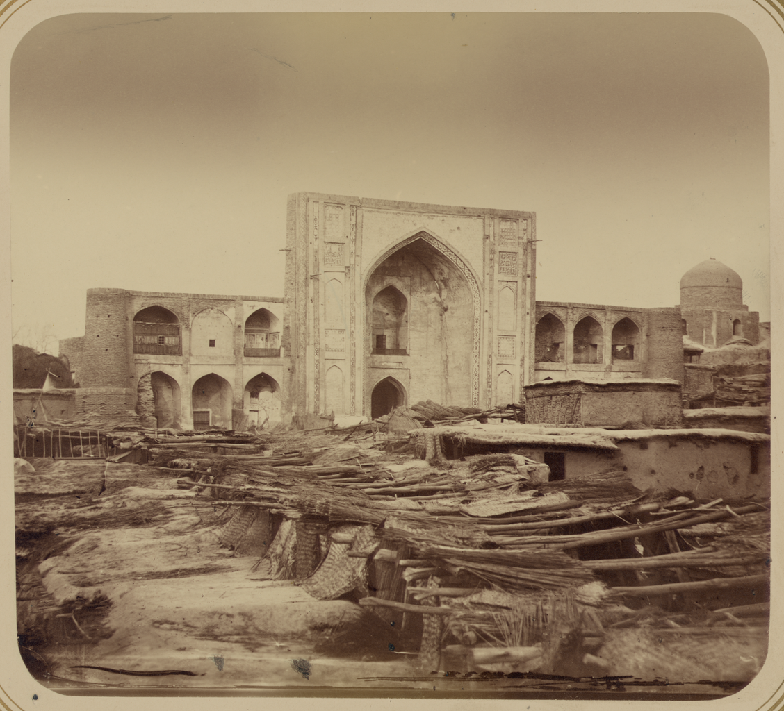 This photograph of the main façade of the Kukeldash Madrasah in Tashkent (present-day Uzbekistan) is from the archeological part of Turkestan Album. The six-volume photographic survey was produced in 1871–72 under the patronage of General Konstantin P. von Kaufman, the first governor-general (1867–82) of Turkestan, as the Russian Empire’s Central Asian territories were called. The Kukeldash Madrasah (religious school) was built in the city center in 1551–75. During this period Tashkent was part of the Khanate of Bukhara, which achieved architectural brilliance under the 16th-century Shaybanid dynasty. Barak Khan was presumably a vizier (high official) in the khanate. This two-storied structure contained arched cells for living and study and was square in plan, with a large interior courtyard. The main entrance was framed by a monumental iwan (vaulted hall, walled on three sides, with one end open) arch. The madrasah is surrounded by squalid hovels for humans and animals, but this view shows remnants of the beautiful original ceramic decoration on the iwan facade. In 1809 Tashkent was seized by the Khanate of Kokand, under whose control it remained until it was taken by the Russians in 1865. Tashkent then became capital of Turkestan. In the 1950s the main façade of the Kukeldash Madrasah was the object of major restoration work. Visible on the far right is the central dome of the Djami Mosque, which suffered severe earthquake damage in 1868. Archaeological sites; Islamic architecture; Photographic surveys